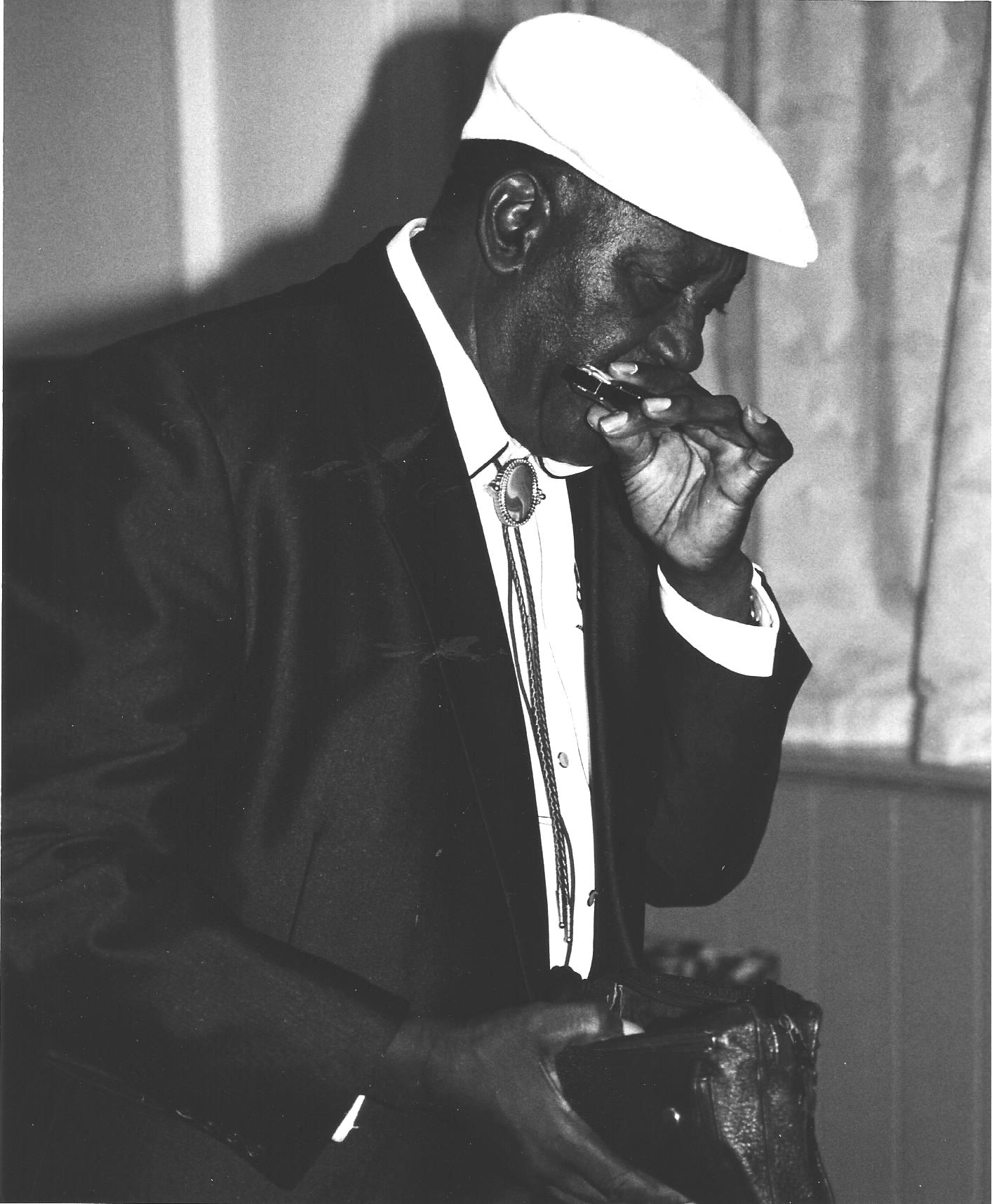 Backstage, Old St Paul's Hall, Edinburgh, June 1993 by Phil Wight